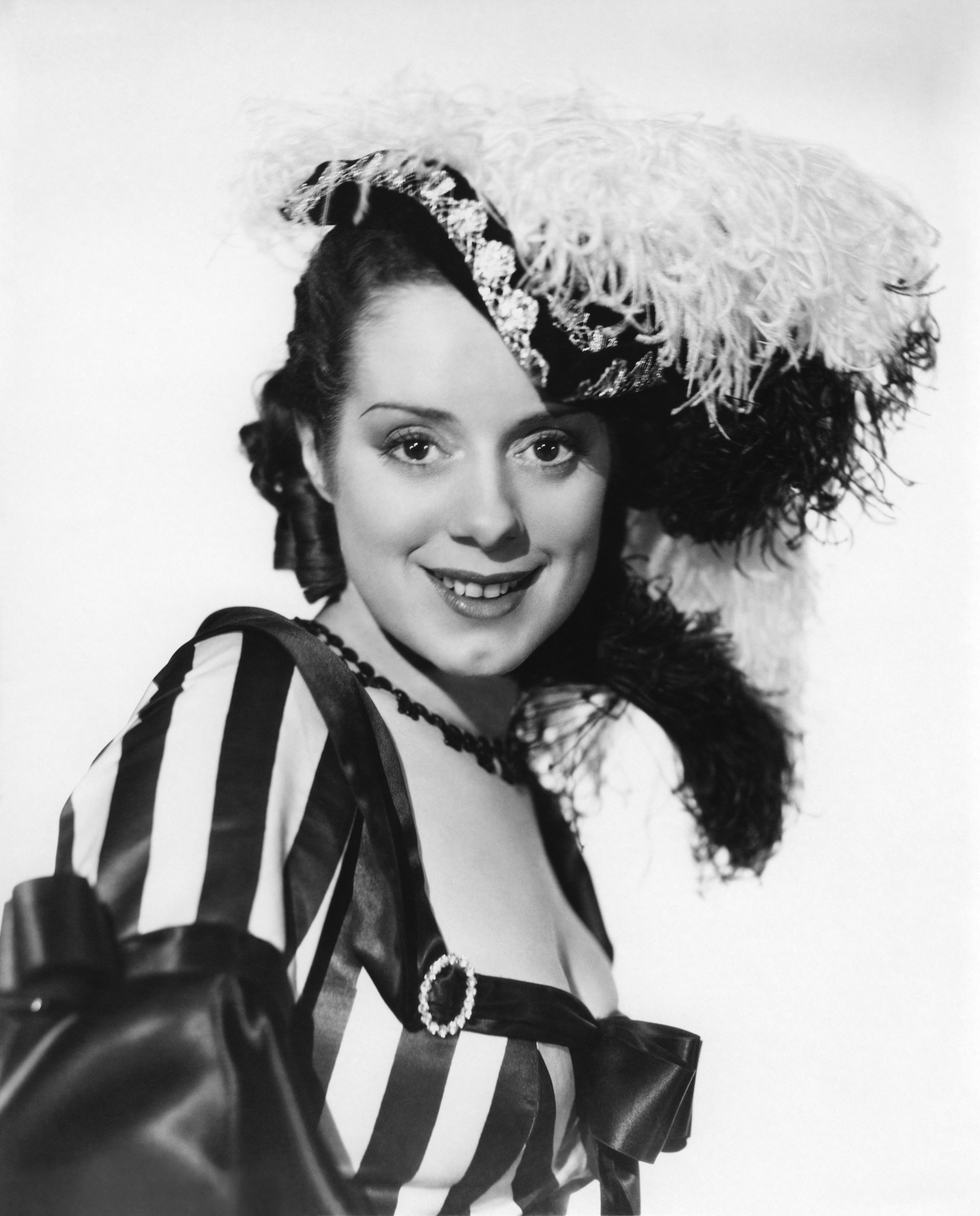 Elsa Lanchester in a promotional shot for Naughty Marietta (1935).